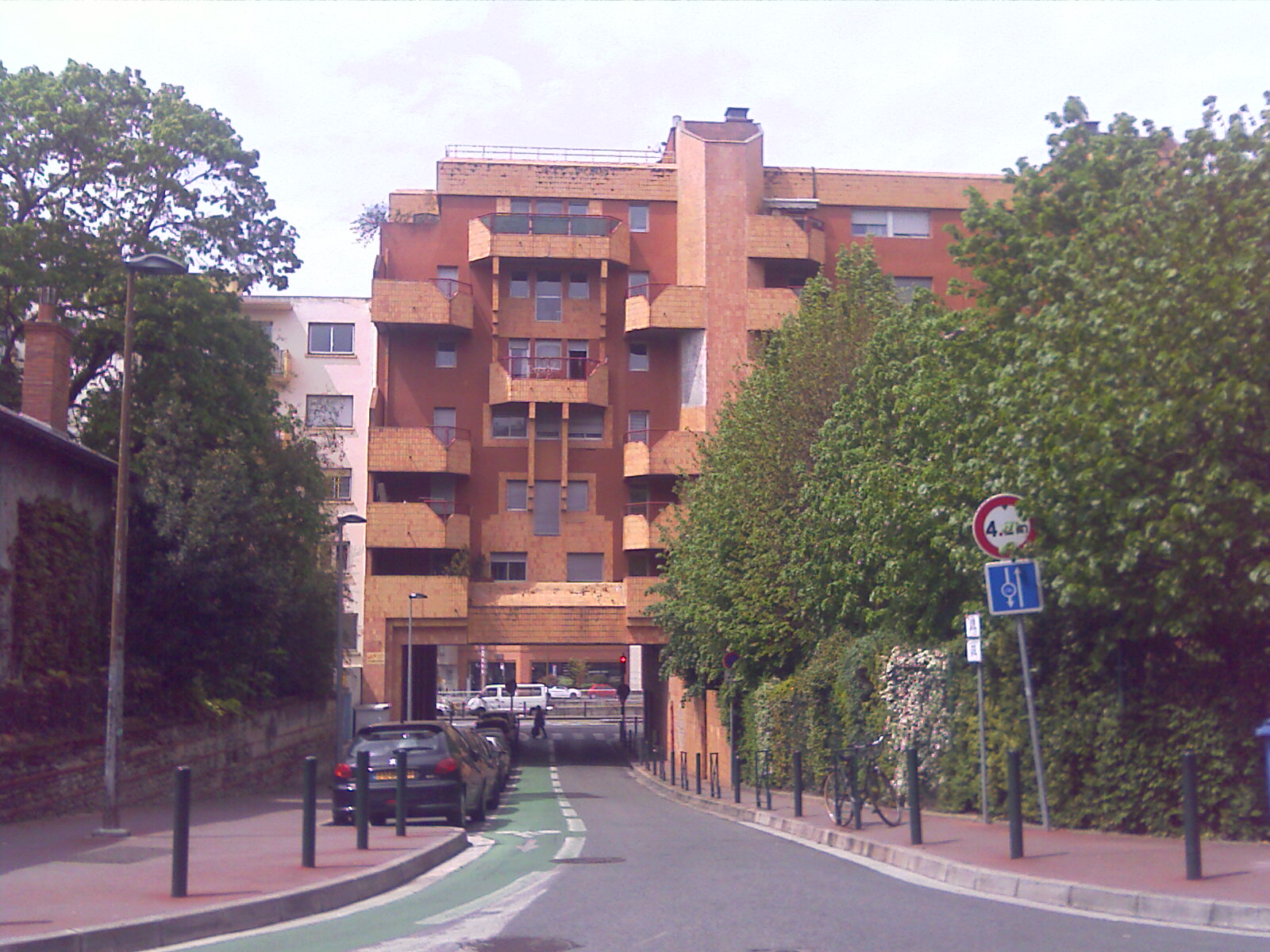 Toulouse (Haute-Garonne, France) : Rue Pierre Seel.